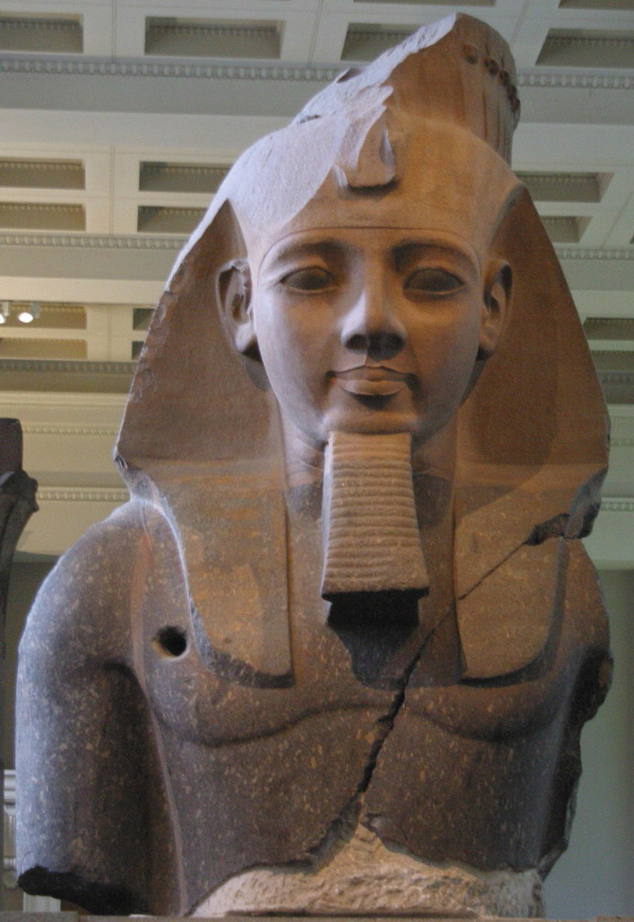 Date: ca.1270 BC Ramses II, granite - British Museum